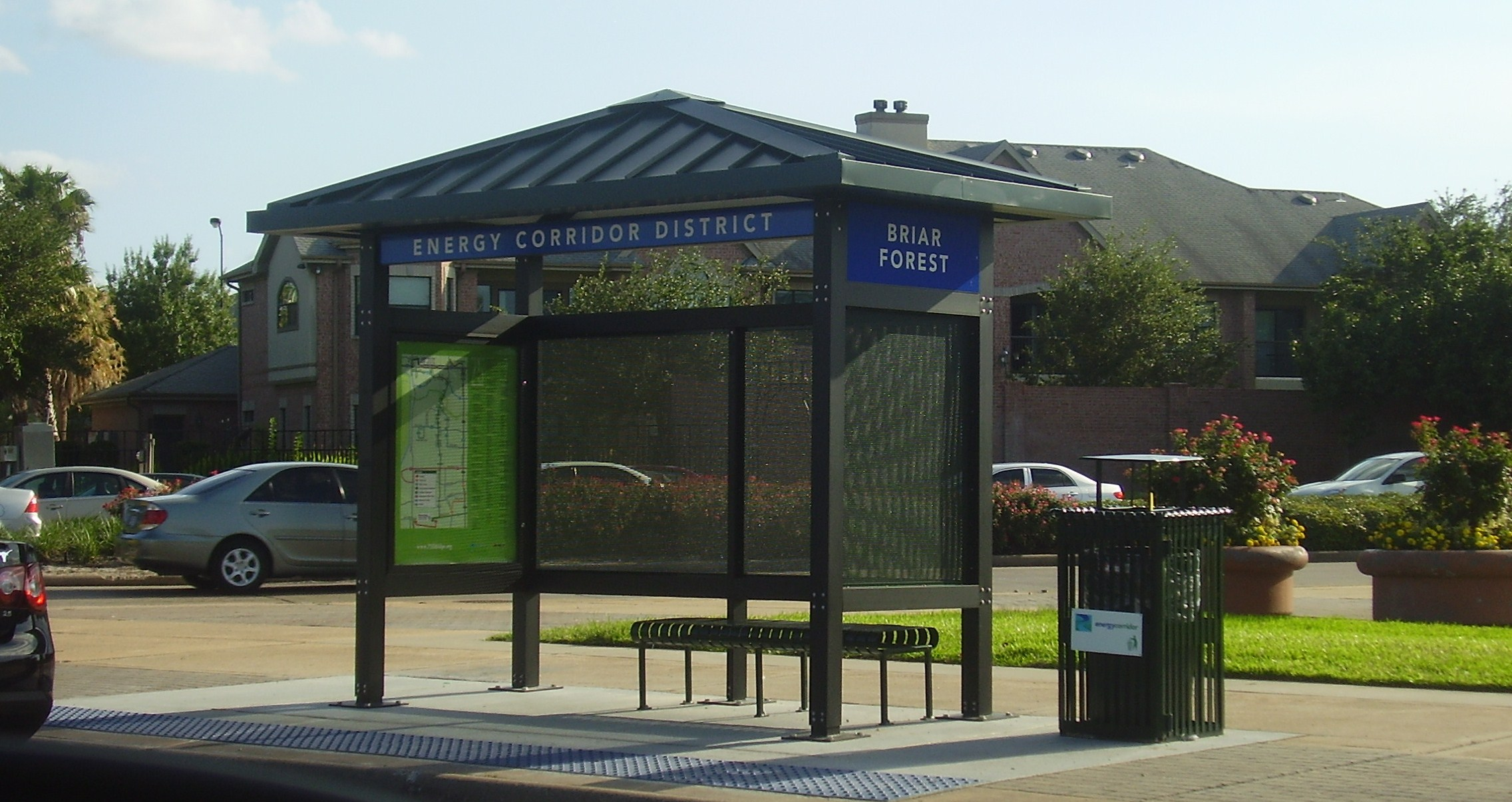 Bus shelter in the Energy Corridor